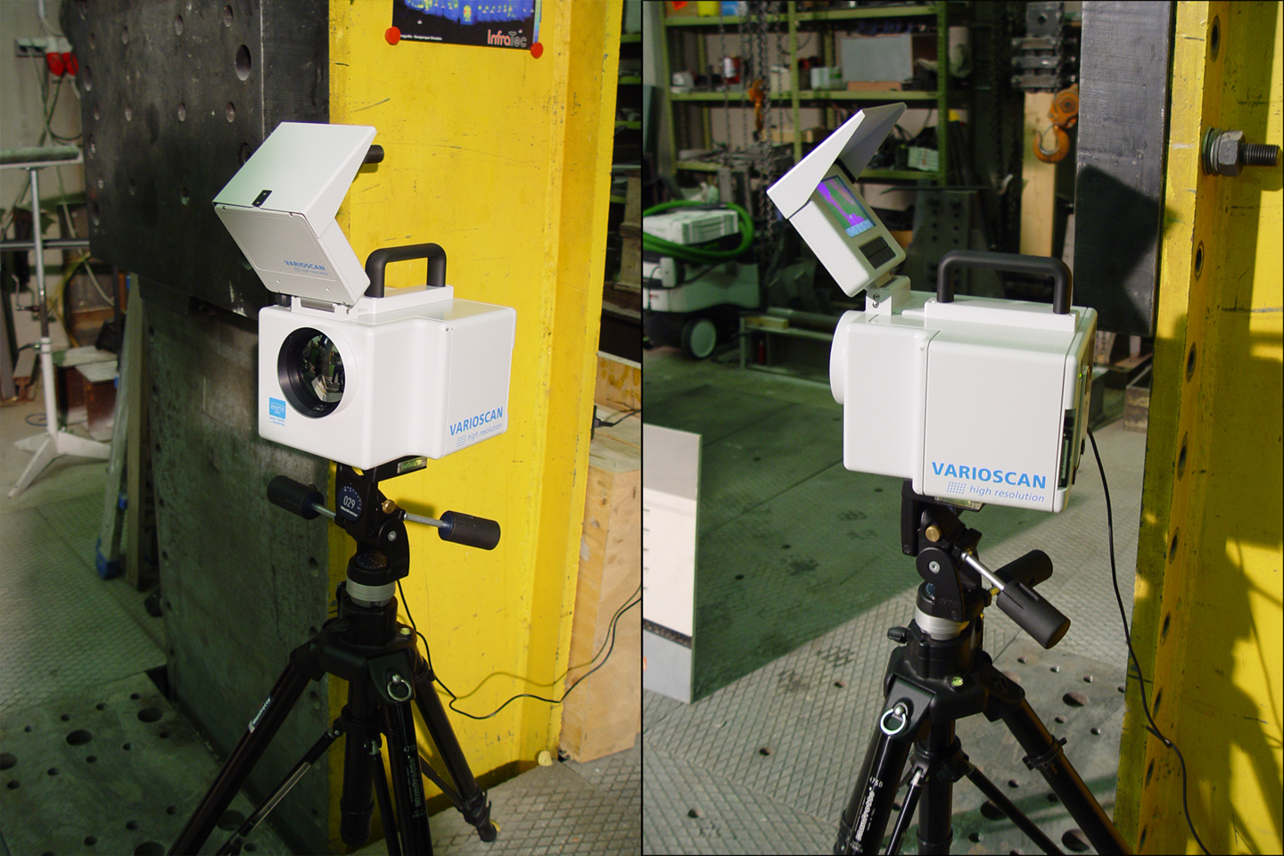 Thermal camera